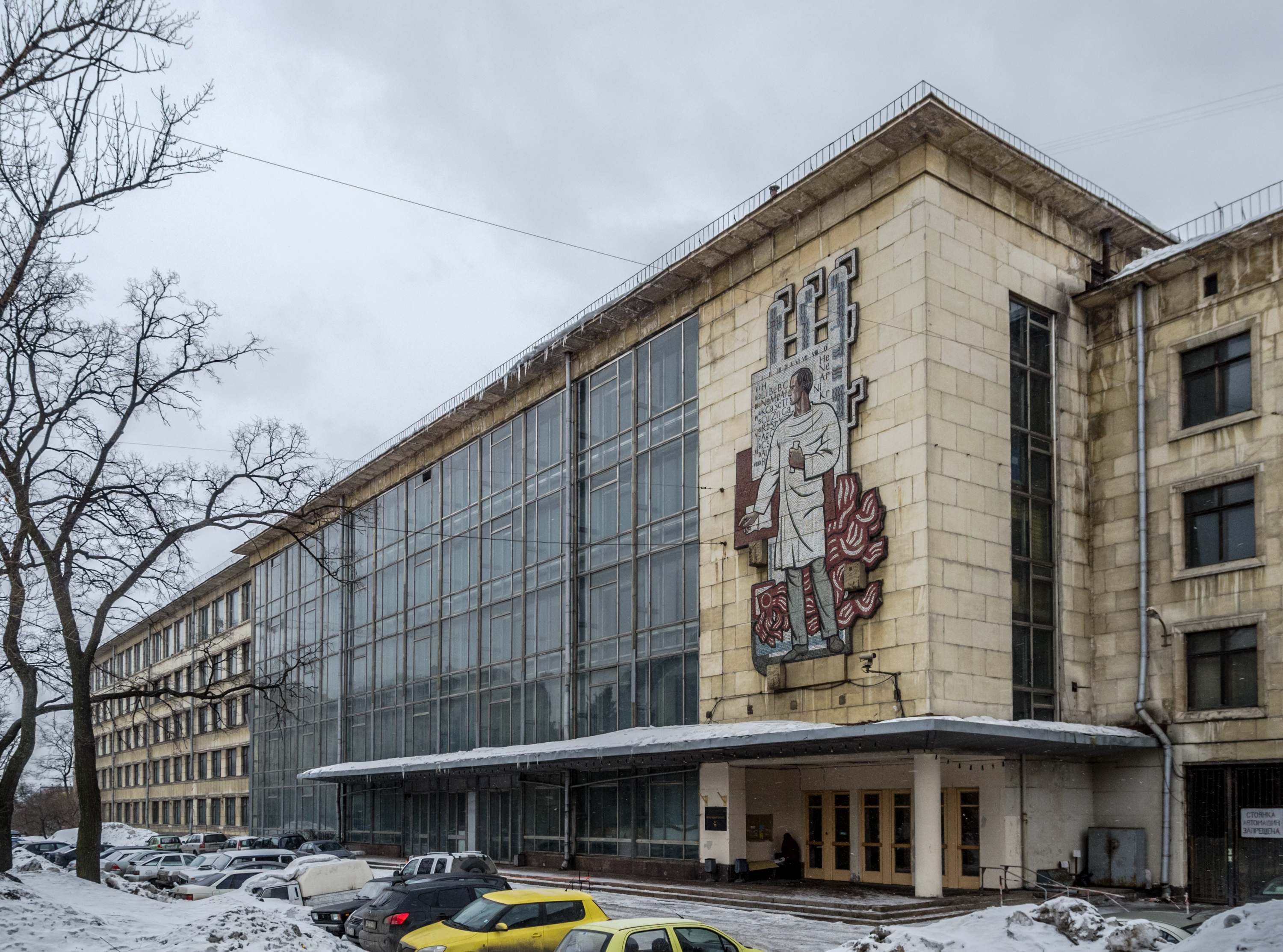 1, Dobroljubova avenue, State Institute of Applied Chemistry (GIPH) former building, Saint Petersburg. Destroyed in 2012.